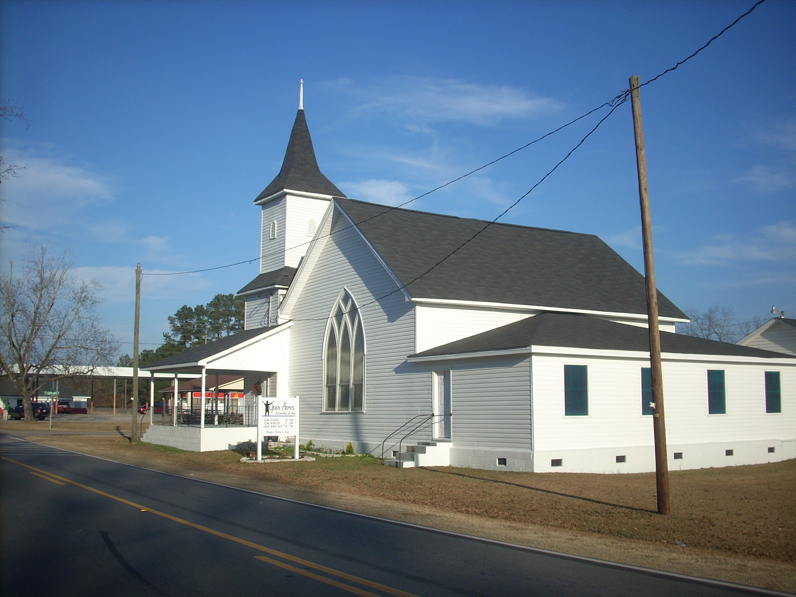 Open Arms Assembly of God is on Rennert Road in Rennert, Robeson County, North Carolina.